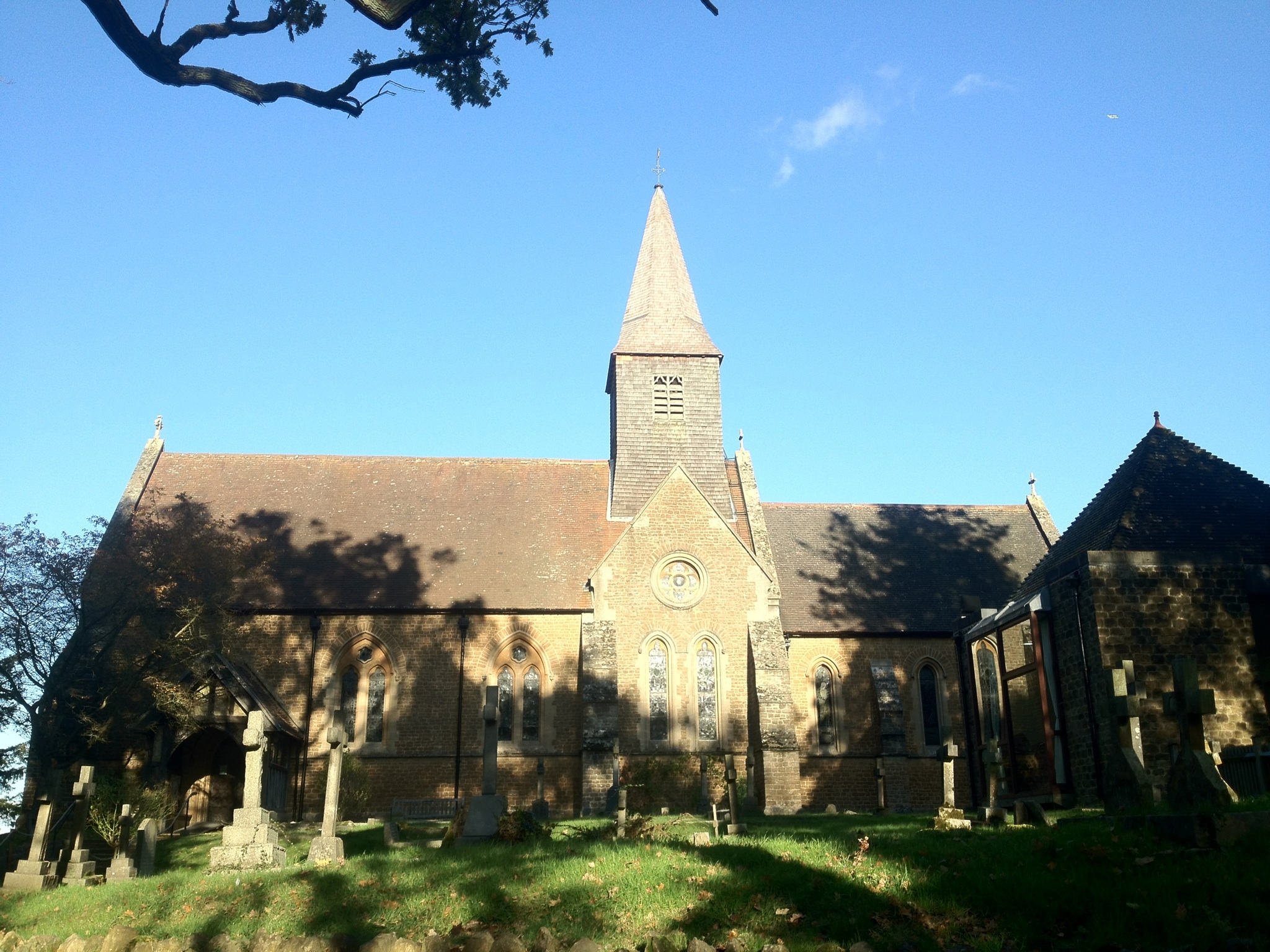 Photo of Gothic Revival church in Godalming. Formerly known as St John the Baptist Church.